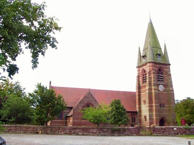 Photograph